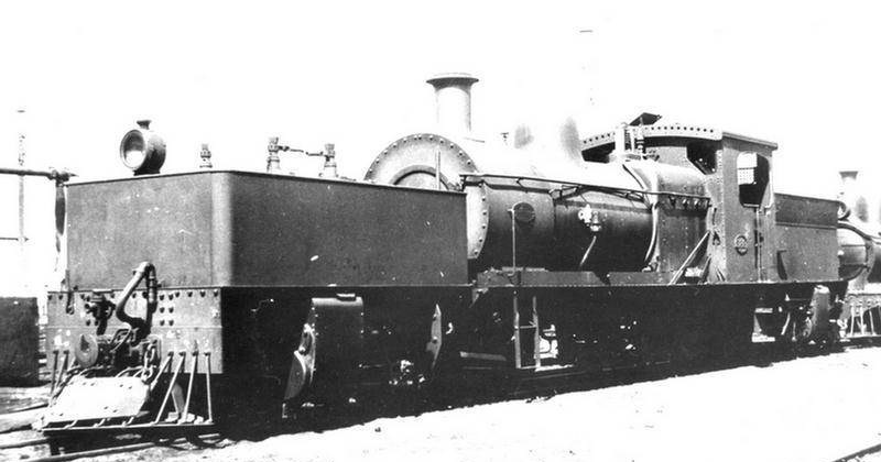 A three quarter view of WAGR M class Garratt locomotive no. 388, at East Perth loco depot.